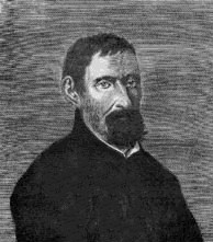 Camillo-Guarino Guarini (7 January 1624 – 6 March 1683)